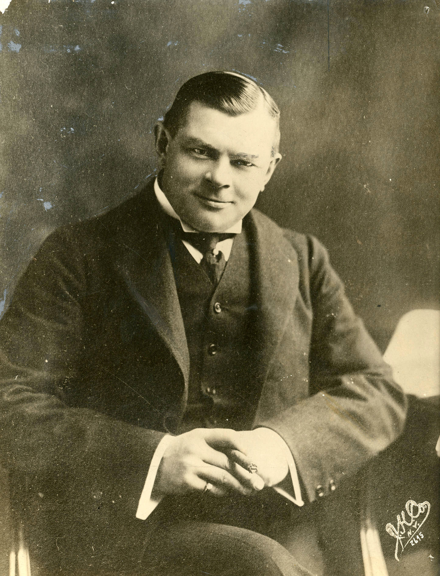 Promotional photo